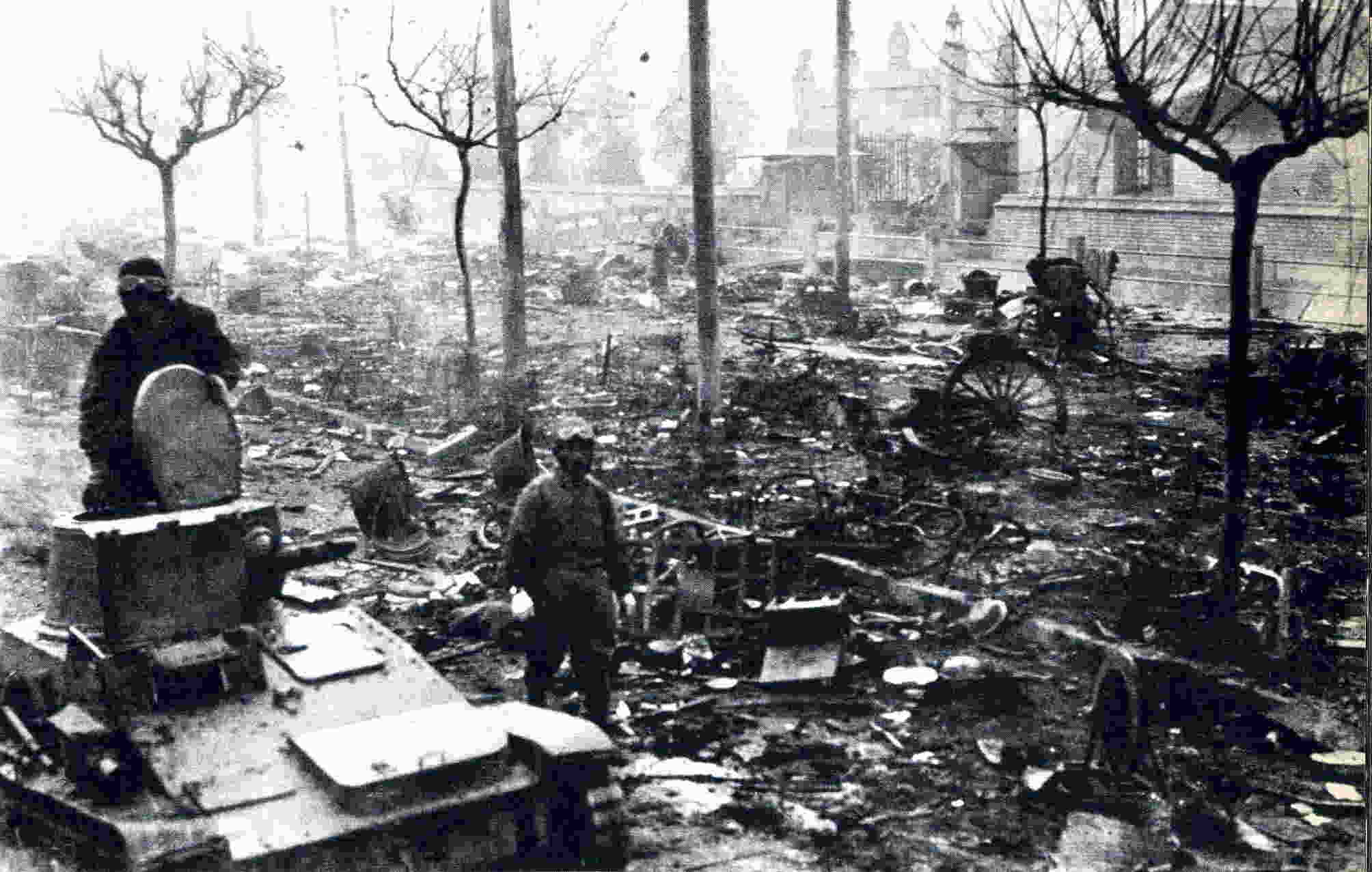 A Japanese soldier walking through debris scattered on Nanking's Zhongshan Road shortly after the fall of Nanking in December 1937